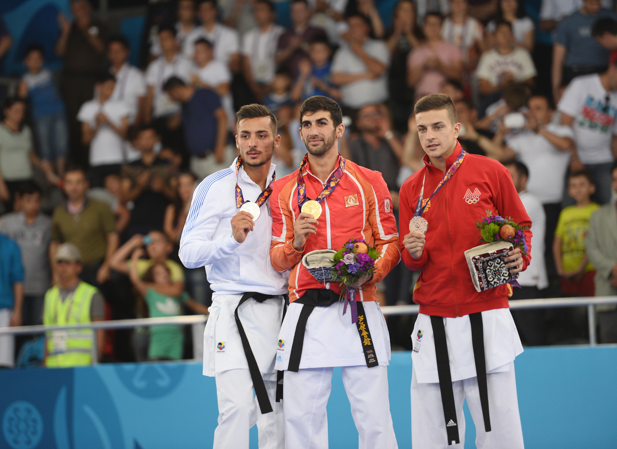 Ilham Aliyev presented the gold medal to the champion of the I European Games Firdovsi Farzaliyev